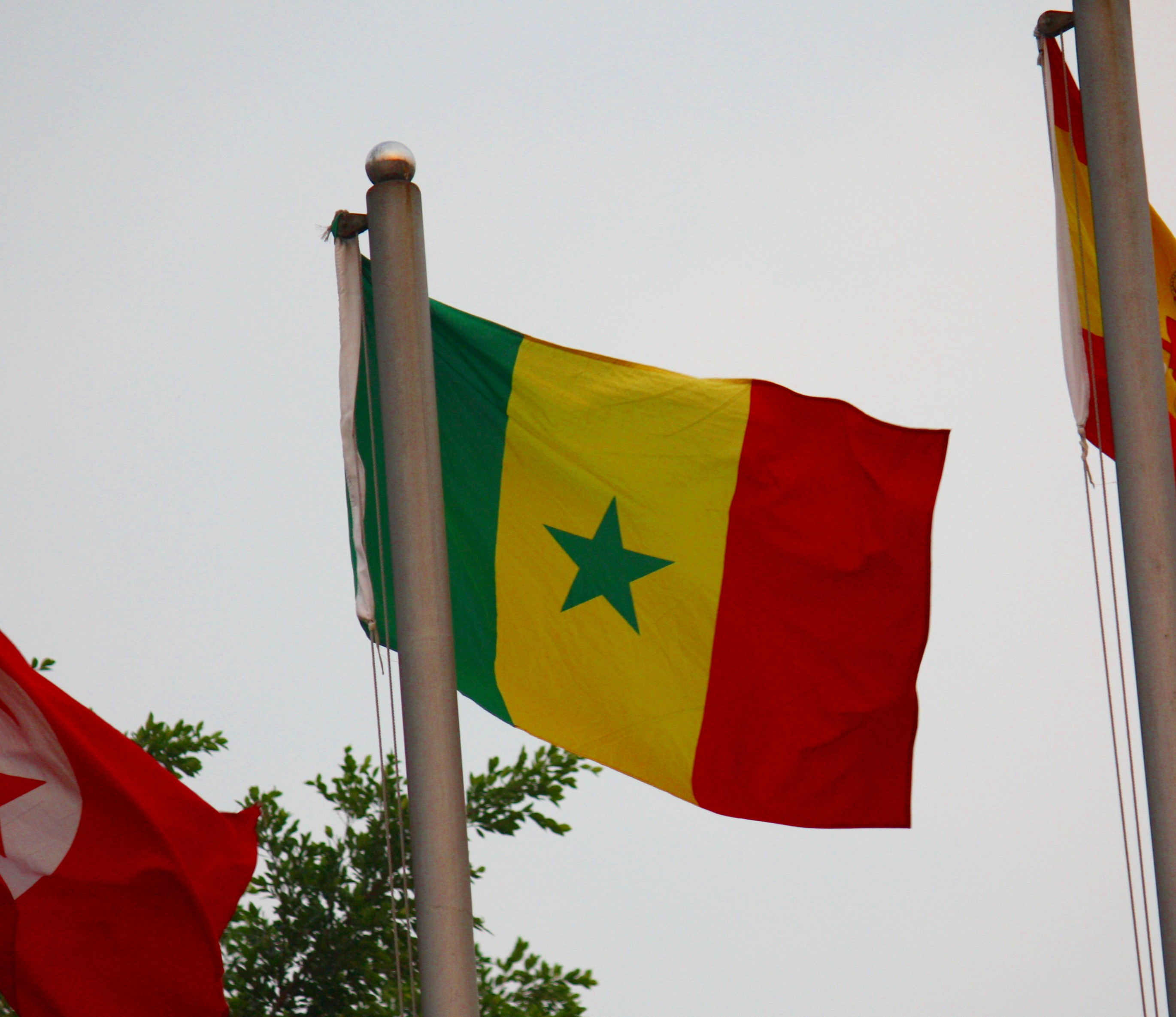 Flag of Senegal in Shenzhen